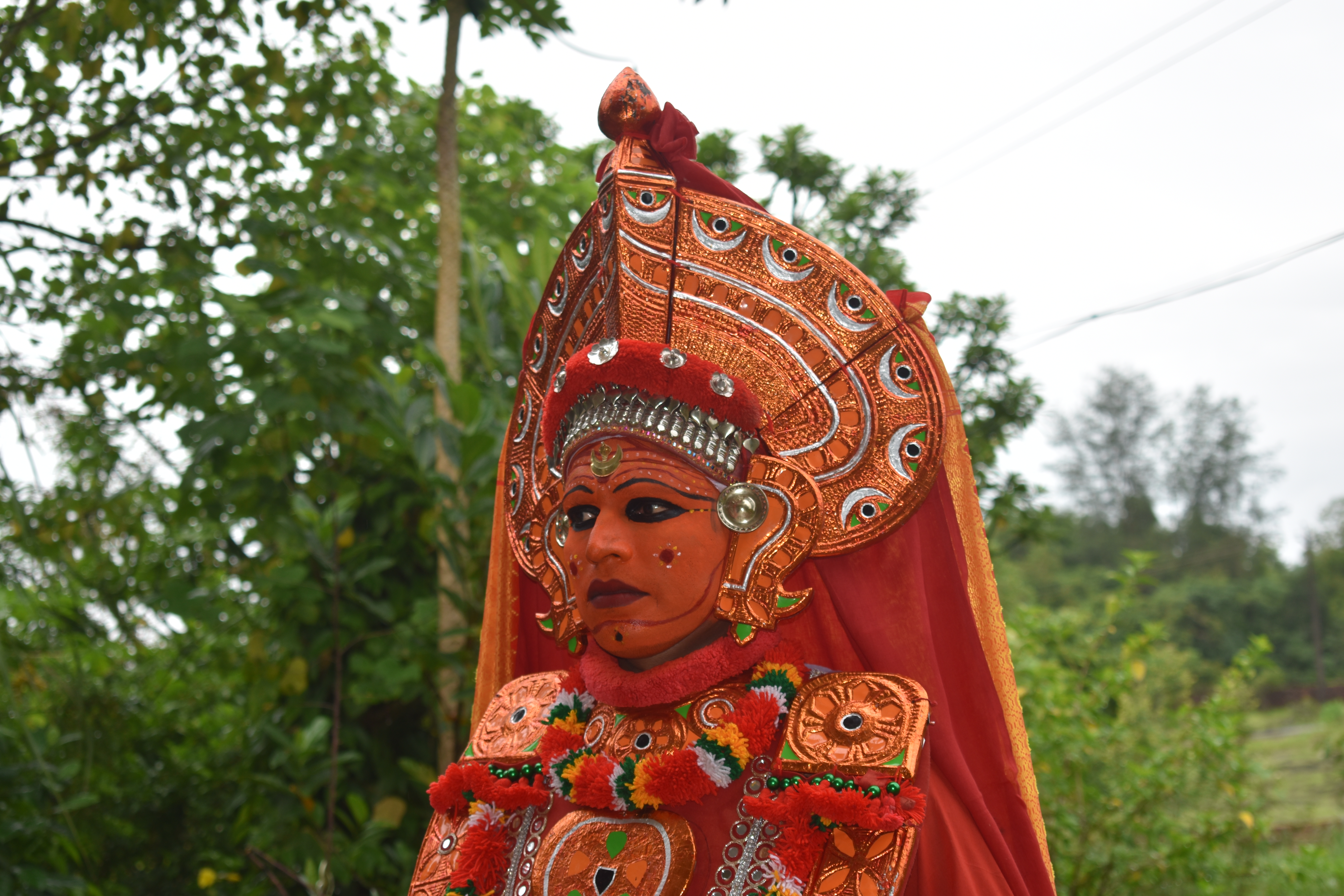 Aadi and Vedan are two different theyyams representing Parvathy and Siva and are usually performed by children during the Mansoon season mainly in Karkidakam and they visit each houses in this season.